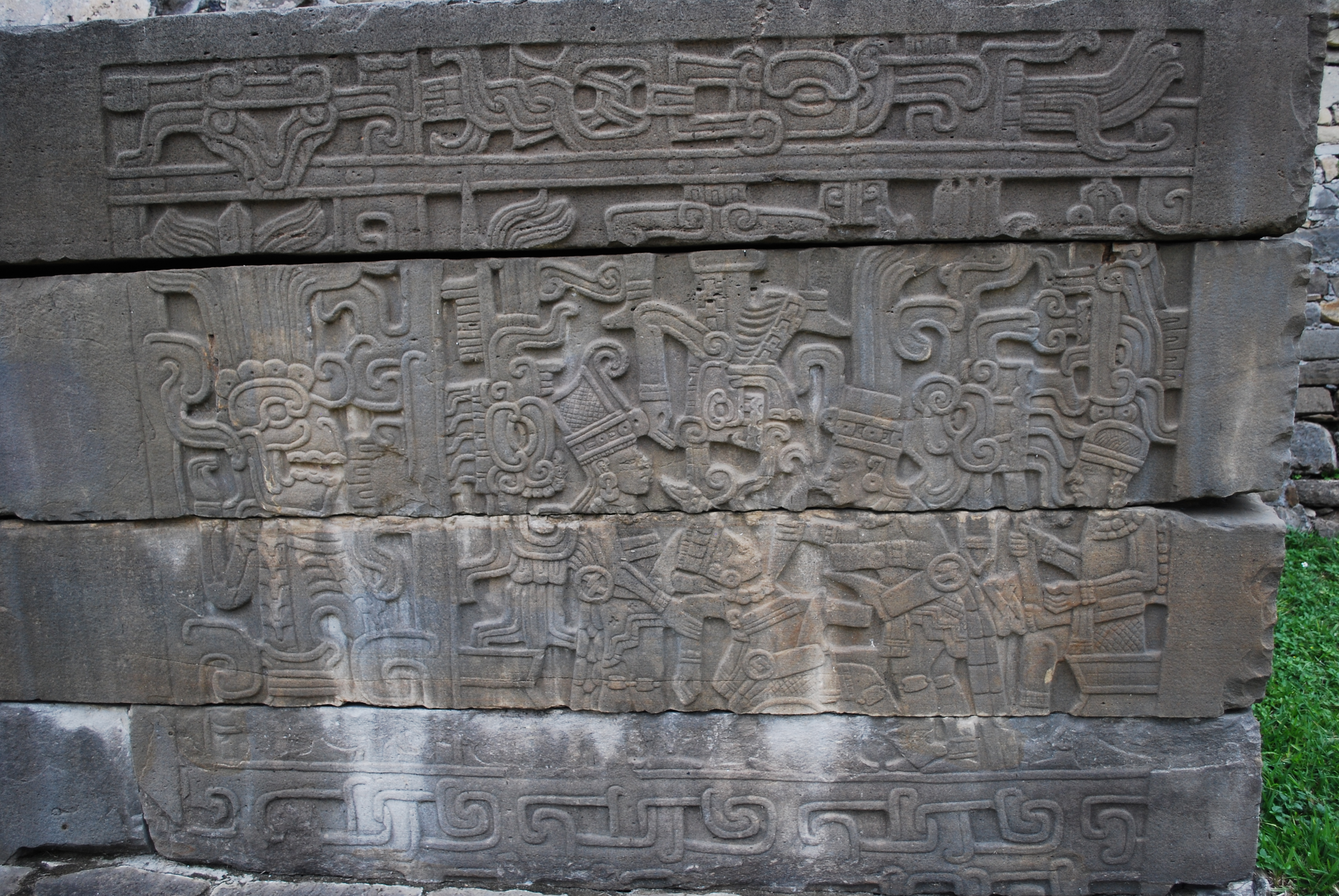 One of the sculpted panels at the South Ball Court at Tajin, Veracruz, Mexico